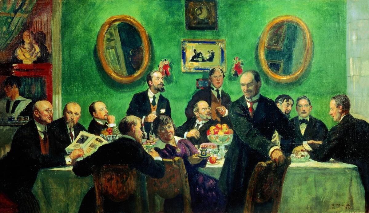 Boris Kustodiyev. Group Portrait of the World of Art Artists. Sketch. 1916-20. oil on canvas. The Russian Museum, St. Petersburg, Russia.